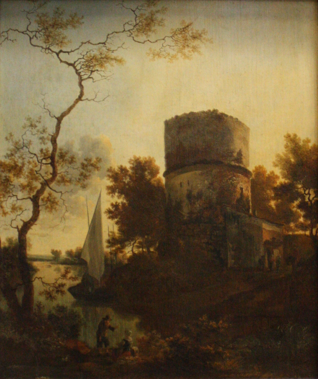 Landscape near Tivoli